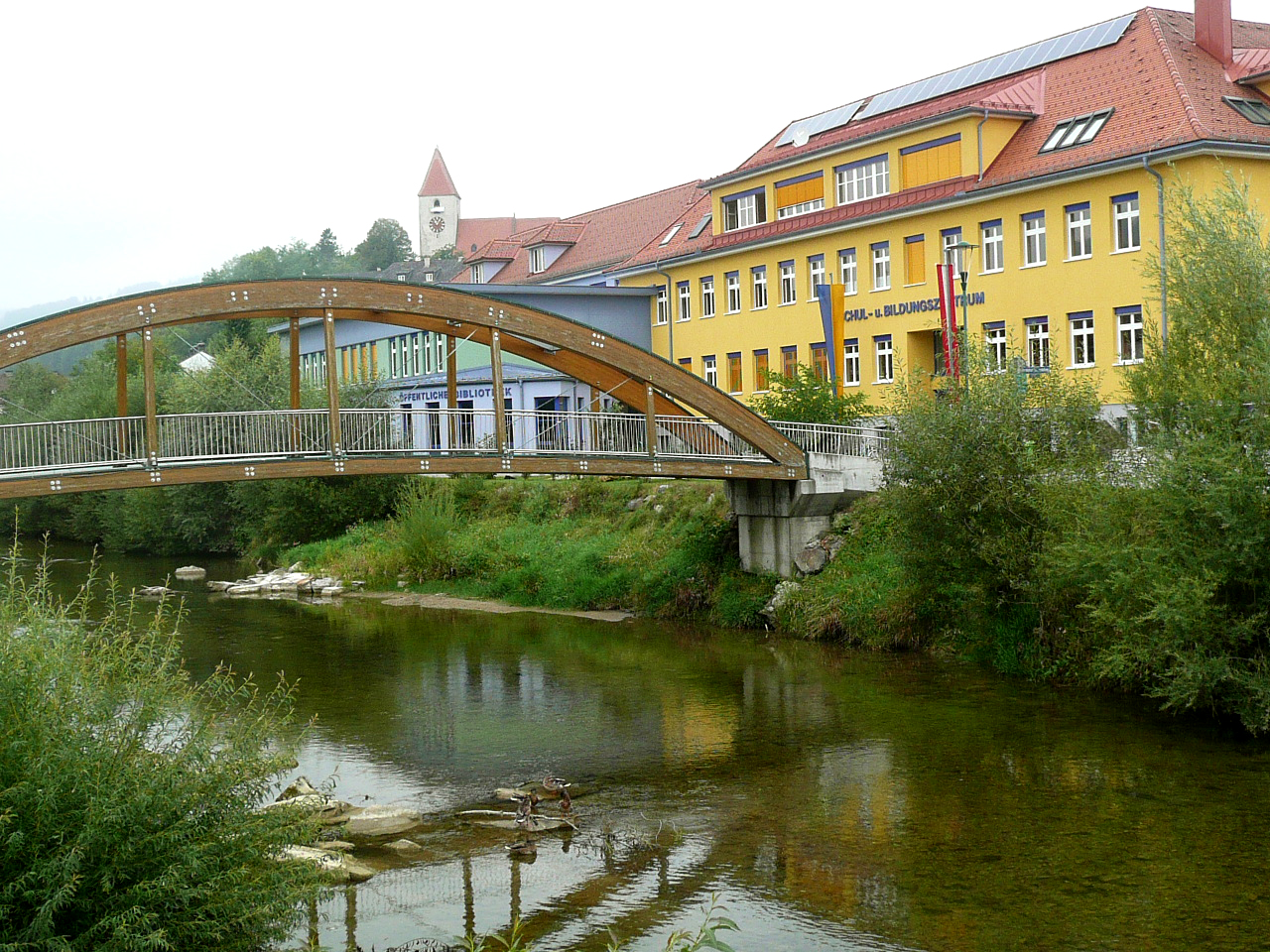 Kirchberg an der Pielach, a river in Lower Austria. View to the school and the Saint Martin church on the hill.